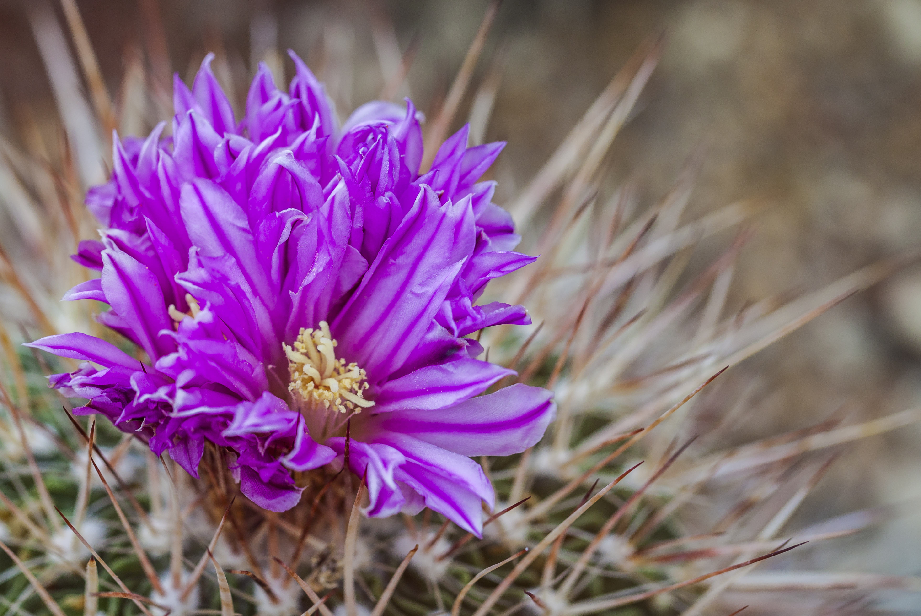 Stenocactus vaupelianus, Munich Botanical Garden, Germany